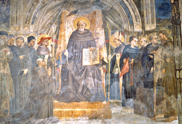 San Giovanni Gualberto. Neri di Bicci. Santa Trinita. Florence